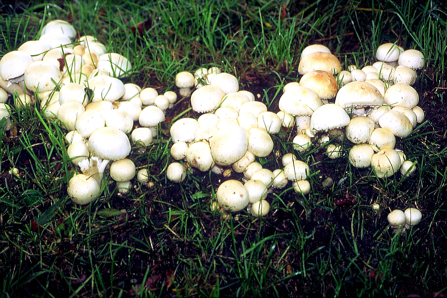 The making of this document was supported by the Community-Budget of Wikimedia Germany.